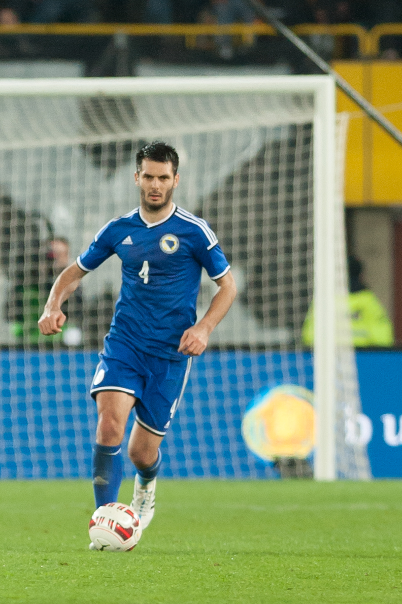 International friendly Austria vs. Bosnia and Herzegovina, 2015-03-31, Vienna